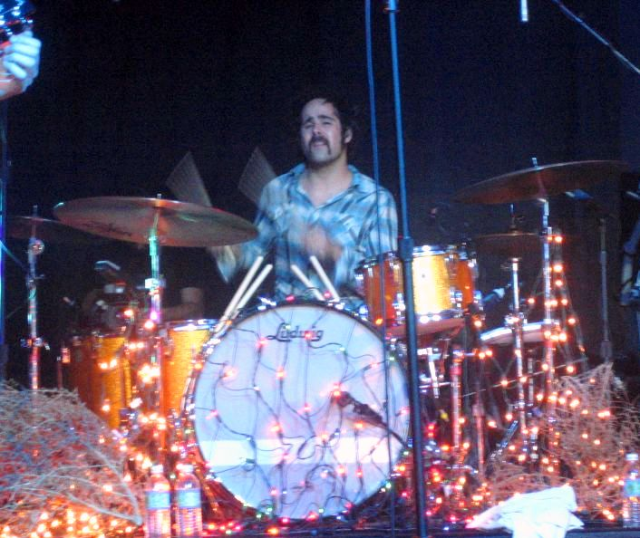 The Killers' drummer, Ronnie Vannucci Jr., playing the drums in Empire Ballroom, Las Vegas, NV on August 25, 2006.